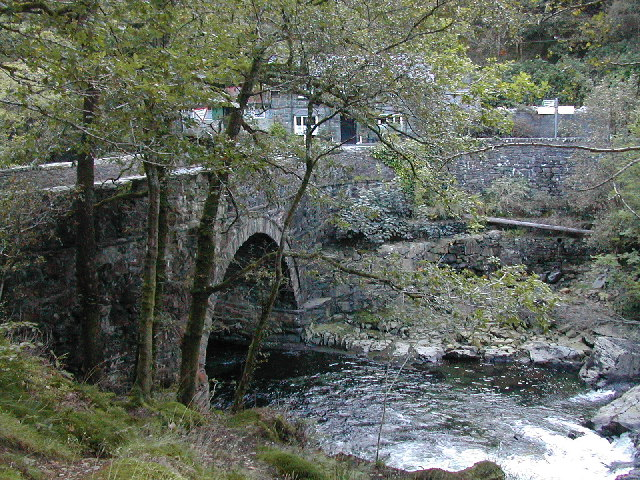 Pont Aberglaslyn. This stone bridge is the only road crossing point over Afon Glaslyn for several miles in either direction.